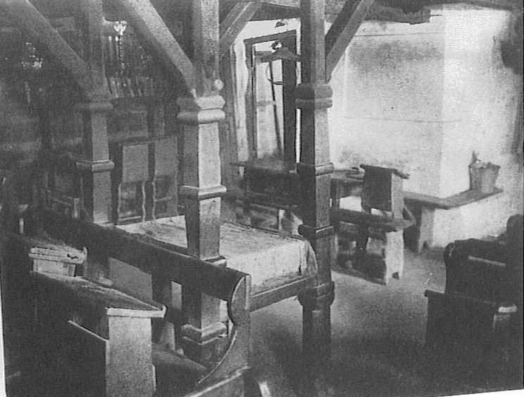 Key words: Medzhibozh, Medzhybizh, Baal Shem Tov This is the interior of the Baal Shem Tov's synagogue (shul) taken about 1915 probably by the Ansky Ethnographic Expeditions in Podolia. It shows convertable prayer desks used for studying.